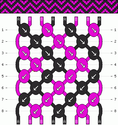 Normal bracelet pattern